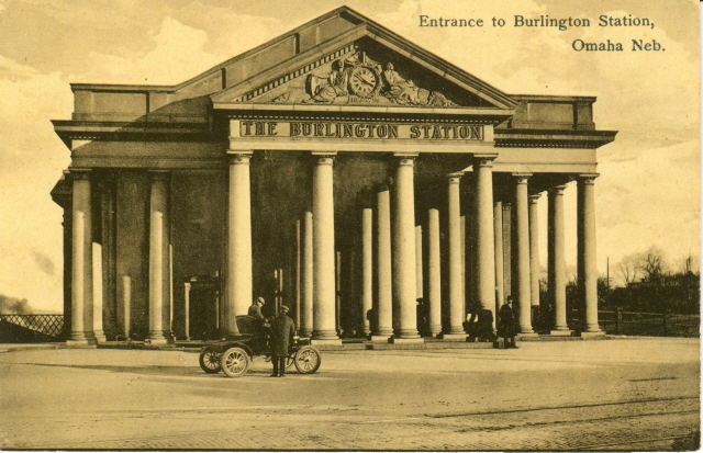 Located in Omaha, Nebraska, a 1910 postcard of the front entrance of the Burlington Station.